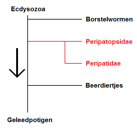 Taxonomy of Onychophora